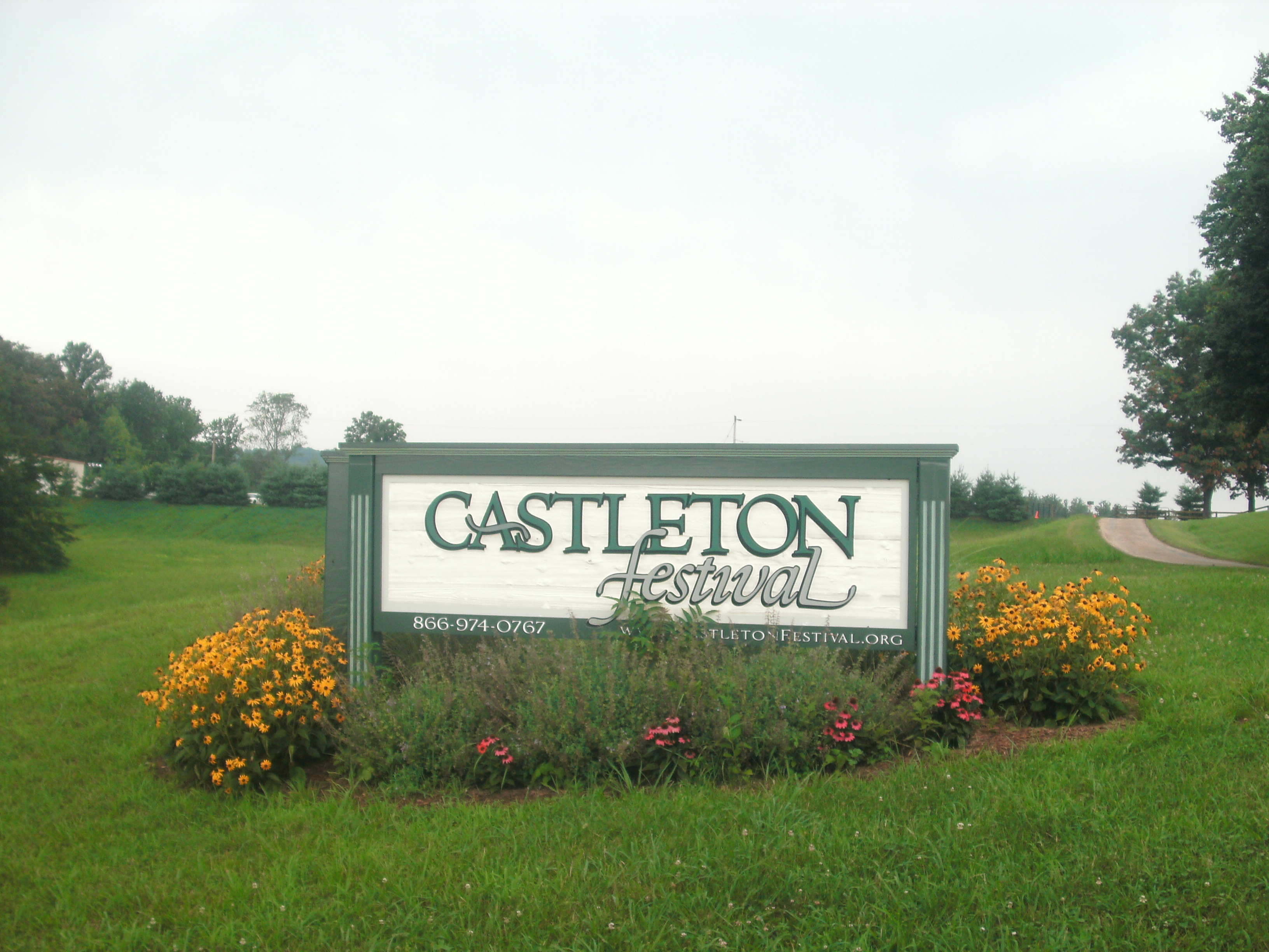 GEDSC DIGITAL CAMERA